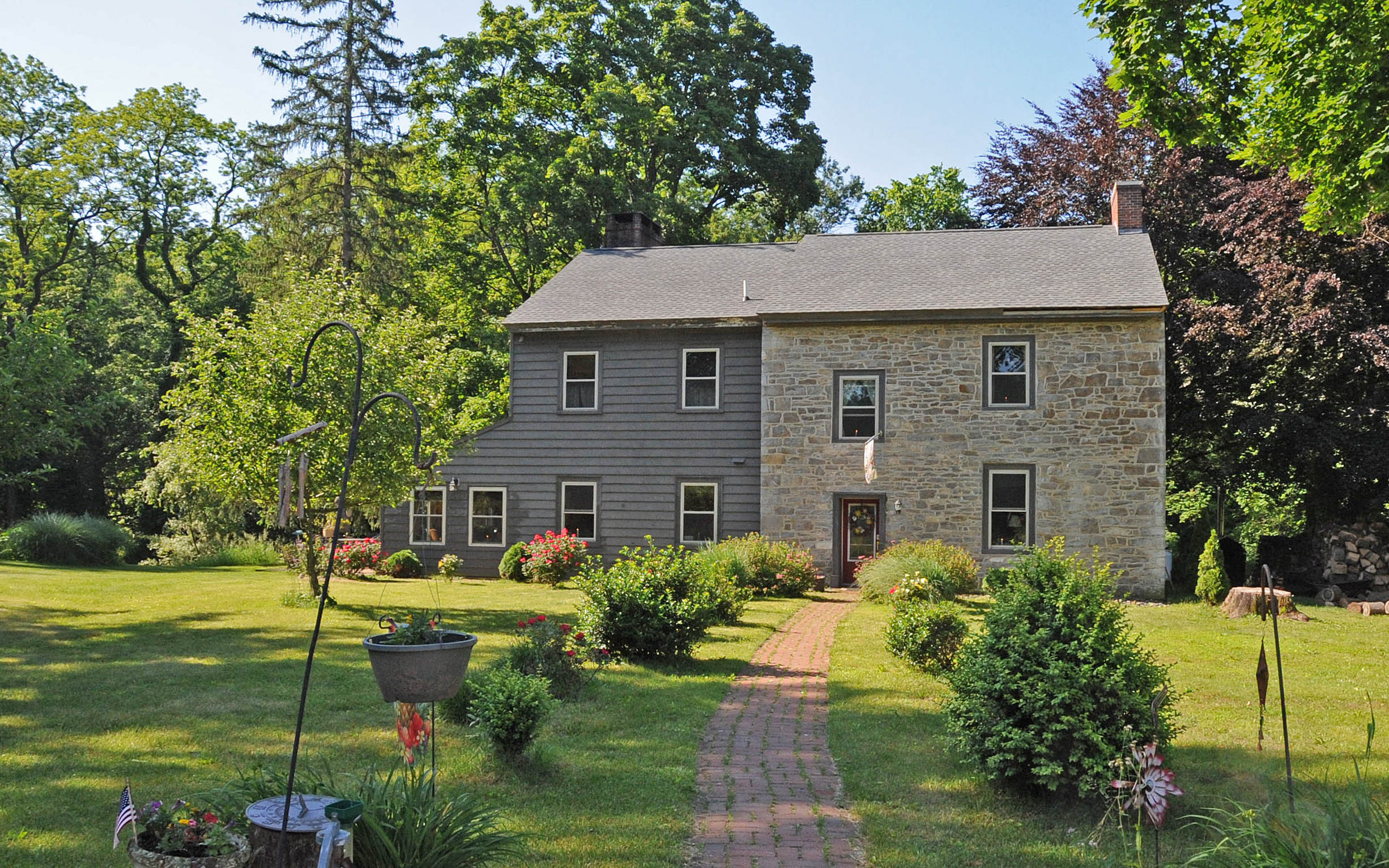 STONE PORTION WAS BUILT CIRCA 1790 AND WITH THE FRAME ADDITION IN THE 1860’S. THIS IS PROBABLY THE REAR OF THE HOUSE WITH THE FRONT FACING SPRING RUN.